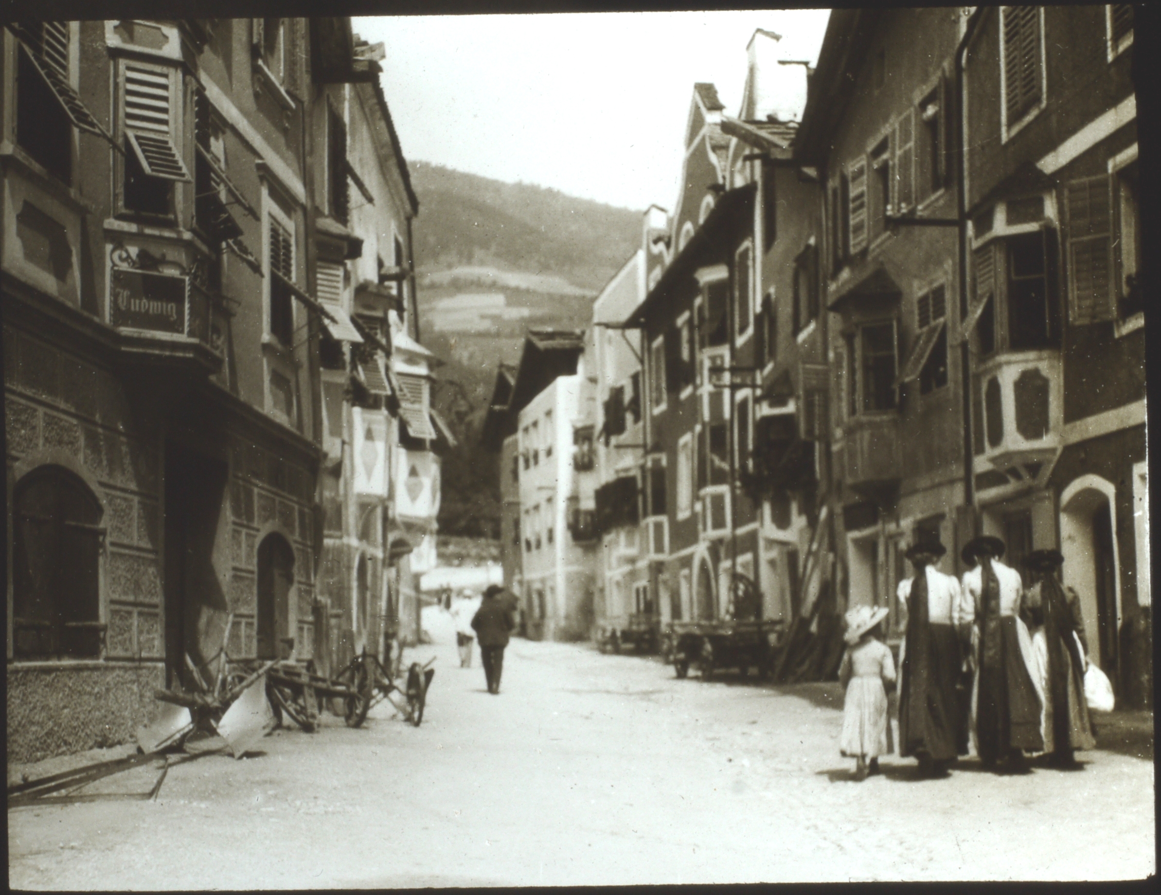 photo A.E.Hasse, Baildon, Yorkshire. Orig. 6x6 glass platte diapositive